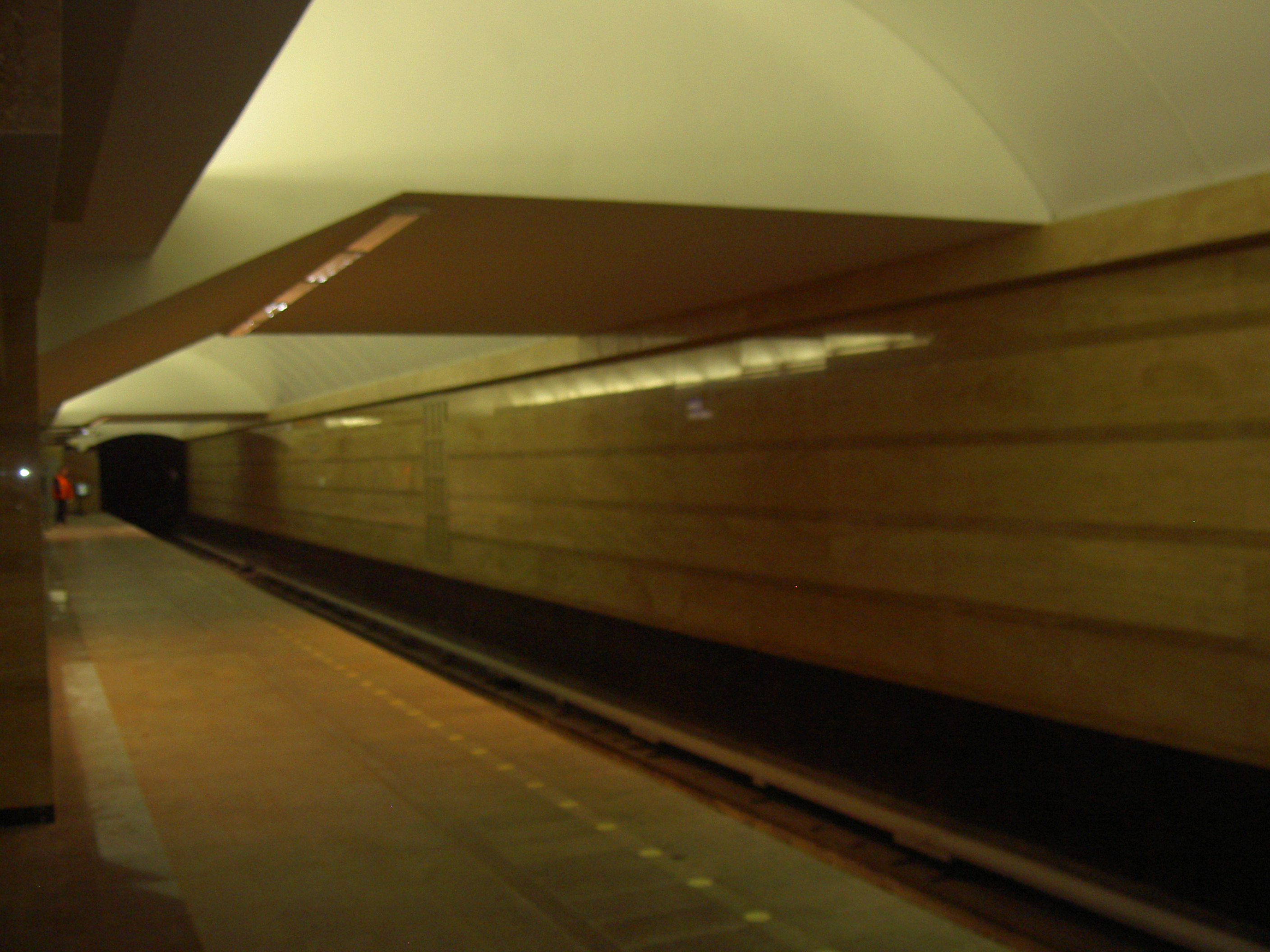 Spasskaya metrostation.